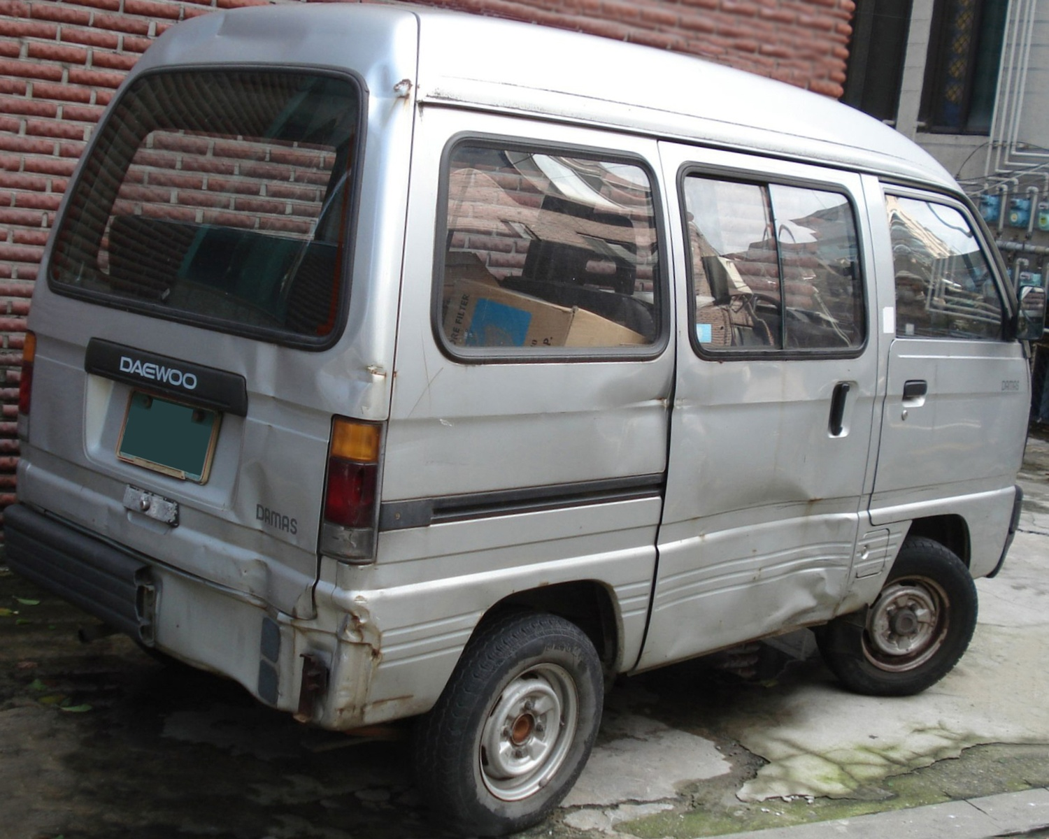 Daewoo Damas